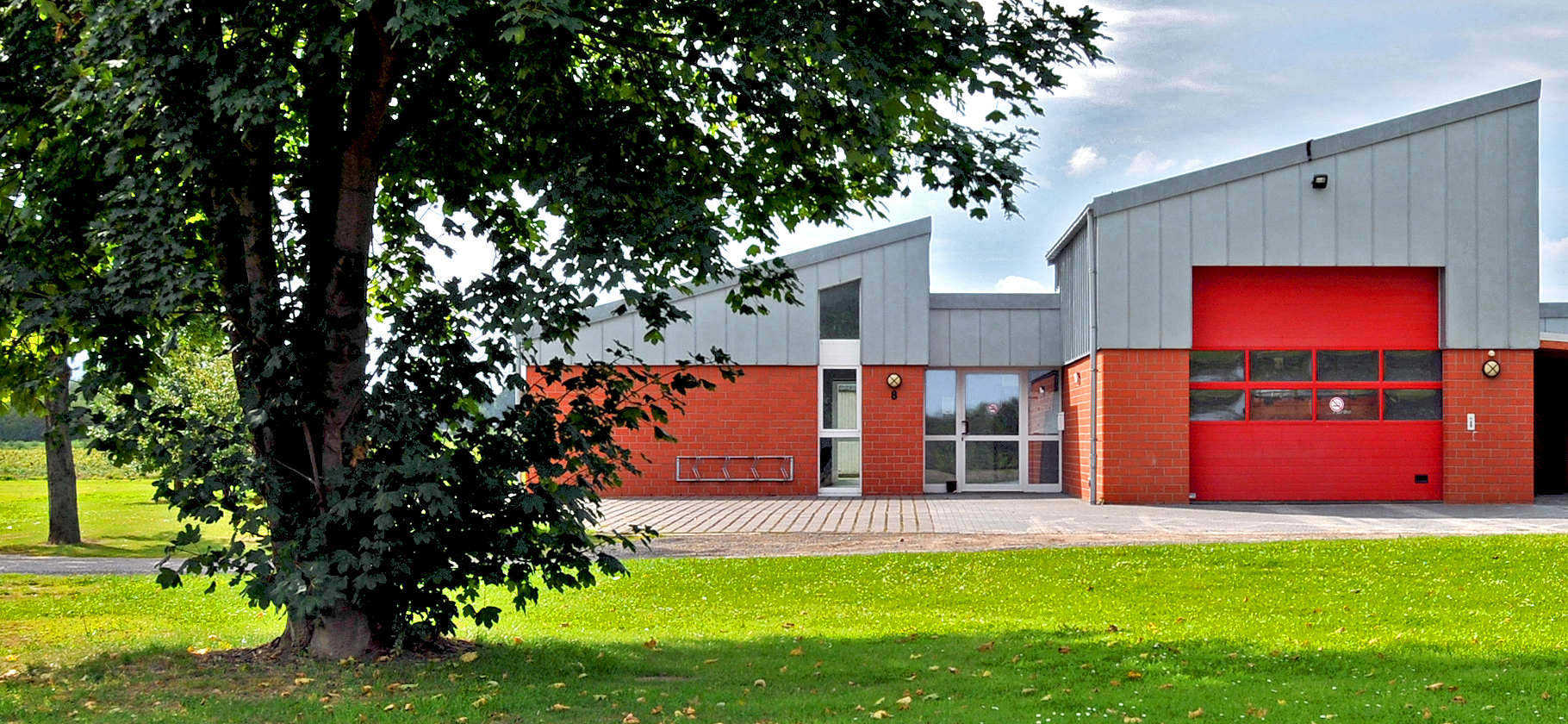 Firehouse in Wülfingen in Elze, district Hildesheim, Lower Saxony, Germany.